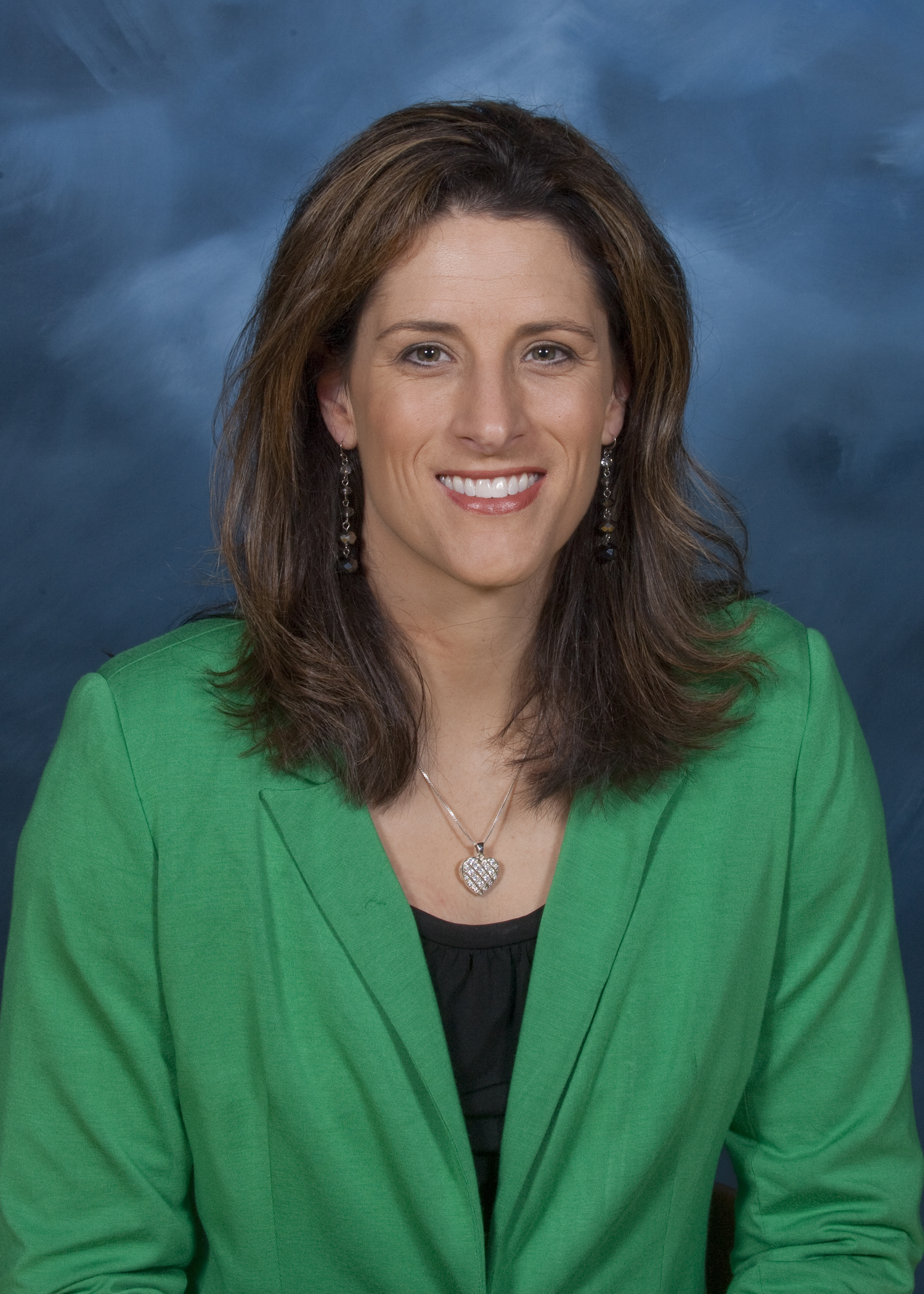 Stephanie White at 2013 Indiana Fever Media Day